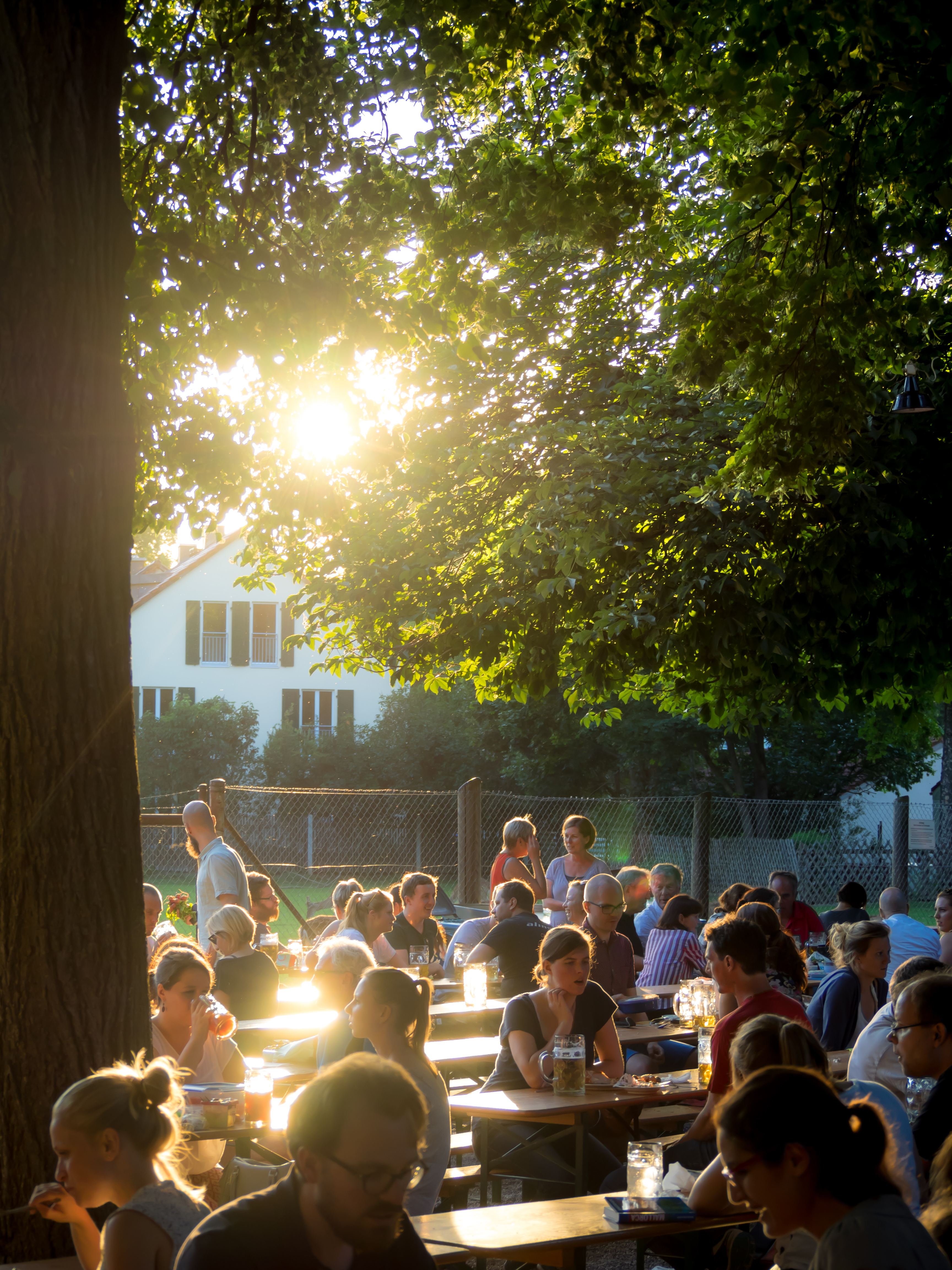 A typical german beergarden scene, permeated by Gemütlichkeit